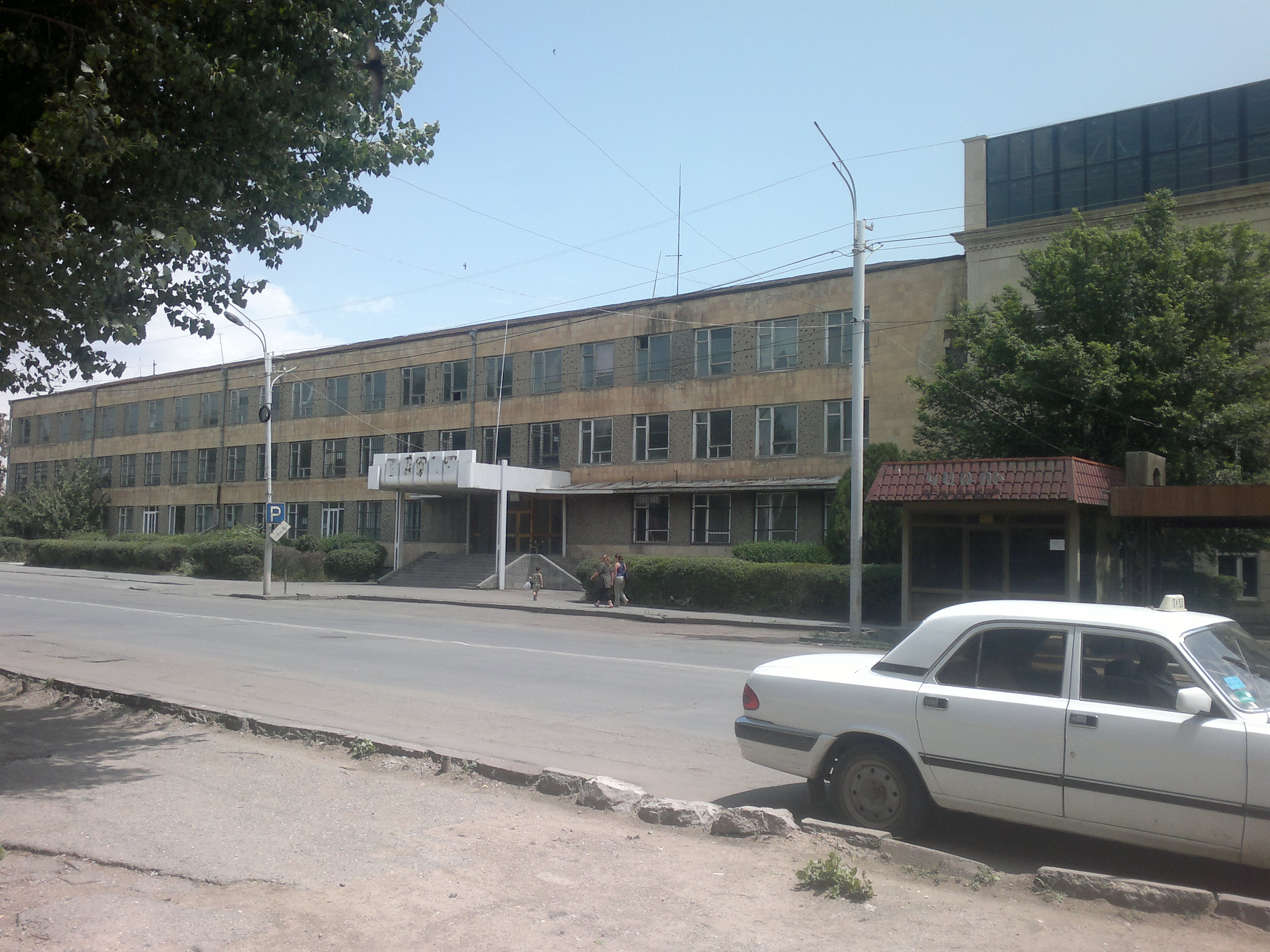 Տեքստիլի մուտքը